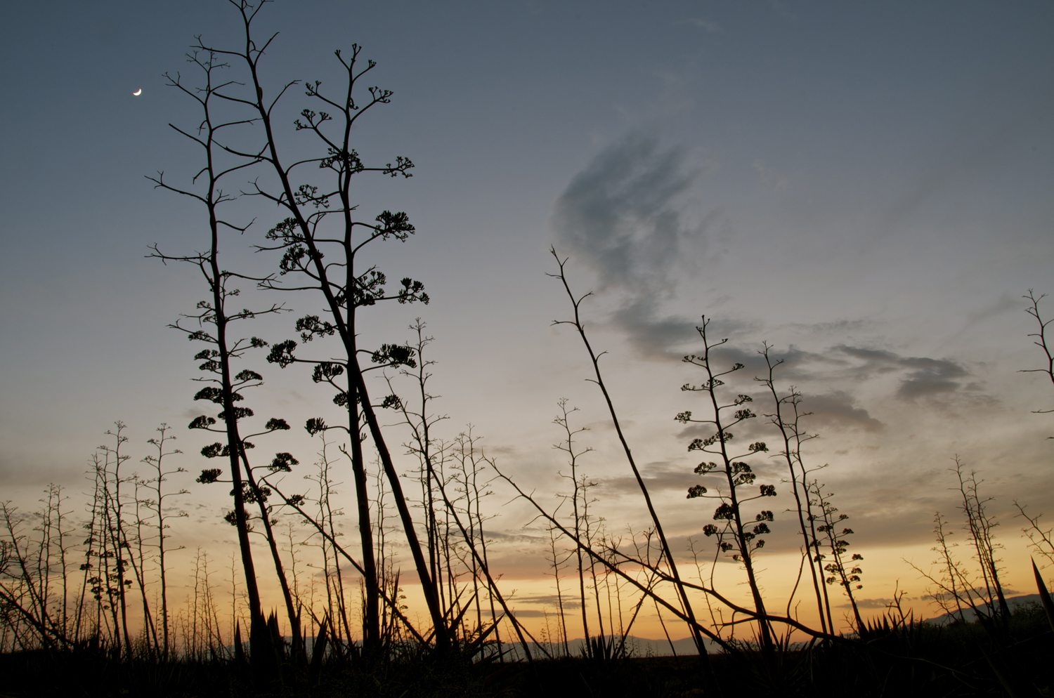 Agave (Pita) plants, a symbol of the Parque Natural de Cabo de Gata